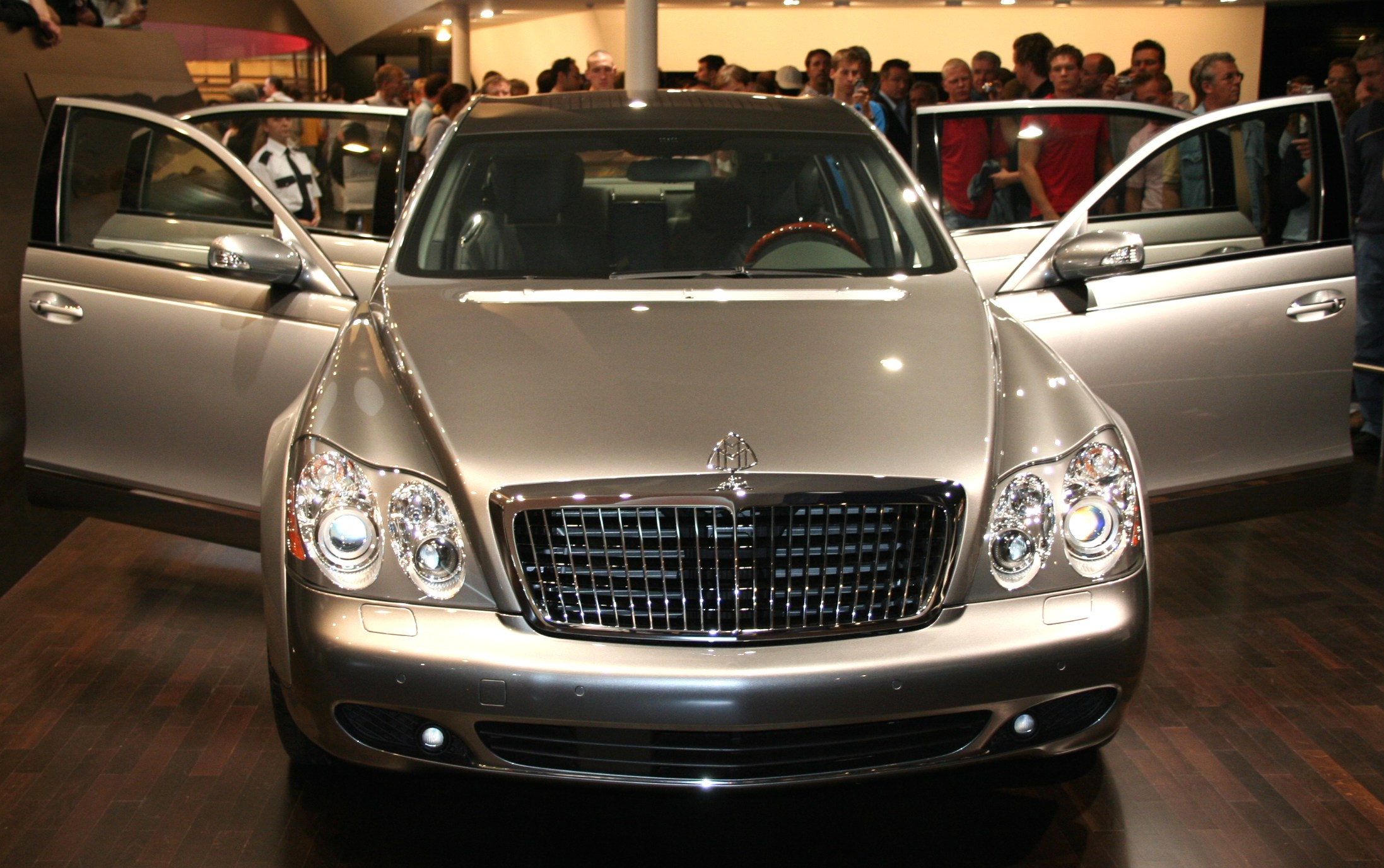 Maybach 62 on IAA 2005 Photo taken by Ygrek, 17th September 2005.